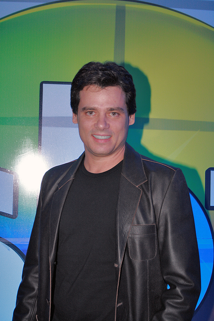 Television presenter of Brazil Celso Portiolli.